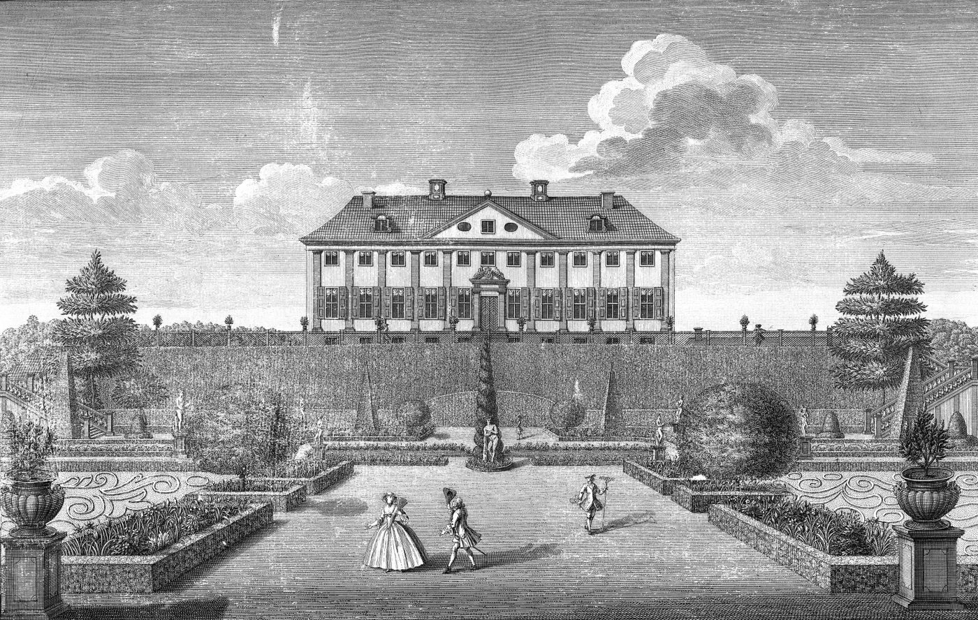 Sorgenfri Palace north of Copenhagen, Denmark